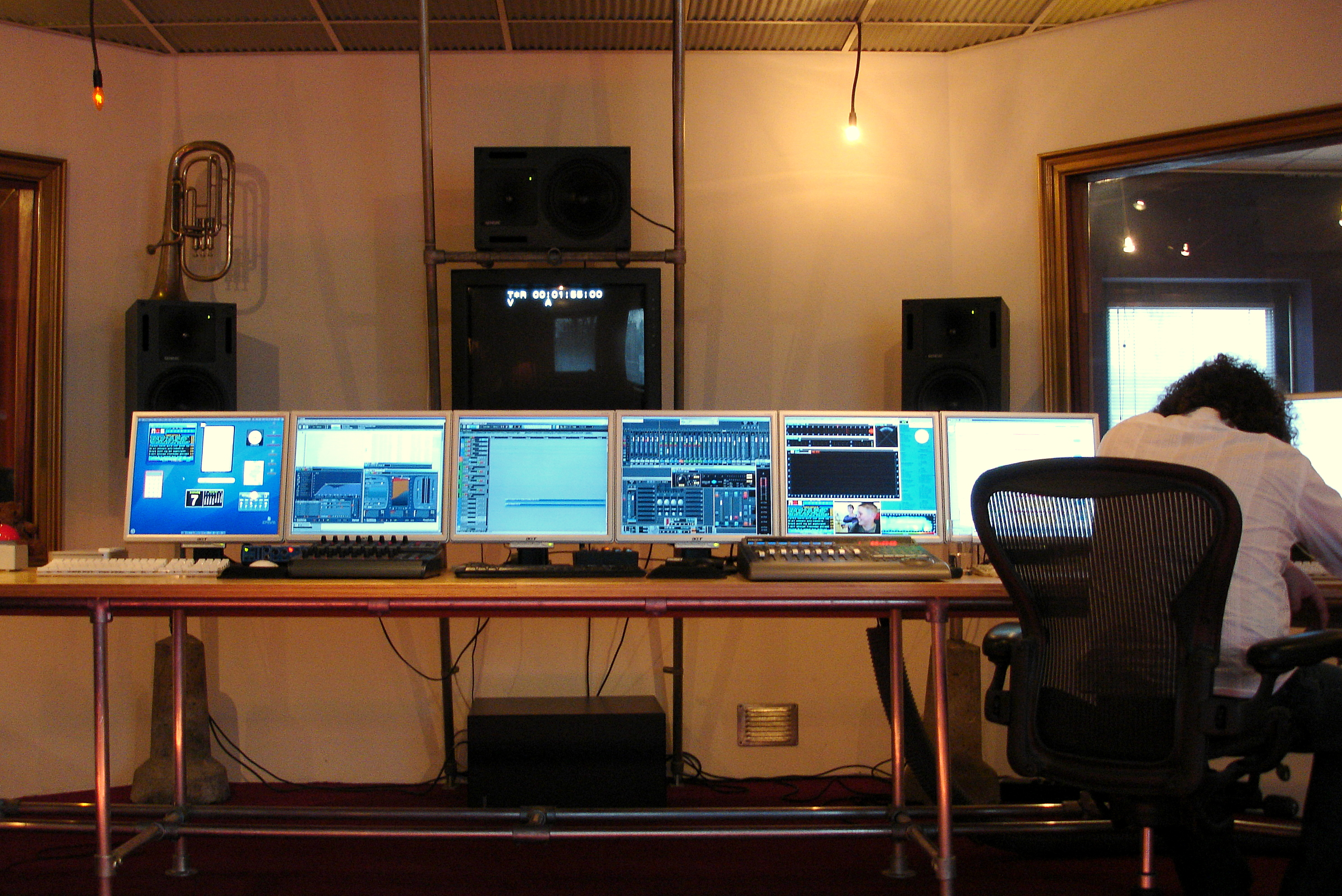 After years of using hardware Neve stuff, the studio is now software based using Macs and PCs. Their main app is Nuendo running on PC. Audio 1: 5.1 & Audio 2: 2.1 recording & mixing DAW: Steinberg Nuendo 6 Plugins among others Waves & Universal Audio Custom made mic pre-amp. Neumann mic’s Recorded caller message space (Inspreek ruimte) for several people. Genelec 5.1/2.1 monitoring 50″ LCD monitor Pinguin Spectrum Analizer MIDI Keyboard for ‘inlachen’ and applaus MPEG 1 Layer 2/3 ISDN CODEC Source Connect & Skype Music & SFX Libraries on local server and the Internet. Tags: Holland The Netherlands Nederland Hilversum Gooi & Vecht Studio studio Nuendo marcoraaphorst Raapie Raaphorst Melodiefabriek